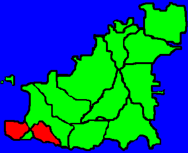 This map shows the position of Torteval in relation to the rest of Guernsey. I created this myself based on Image:Parishes in Guernsey (The Forest shaded).GIF